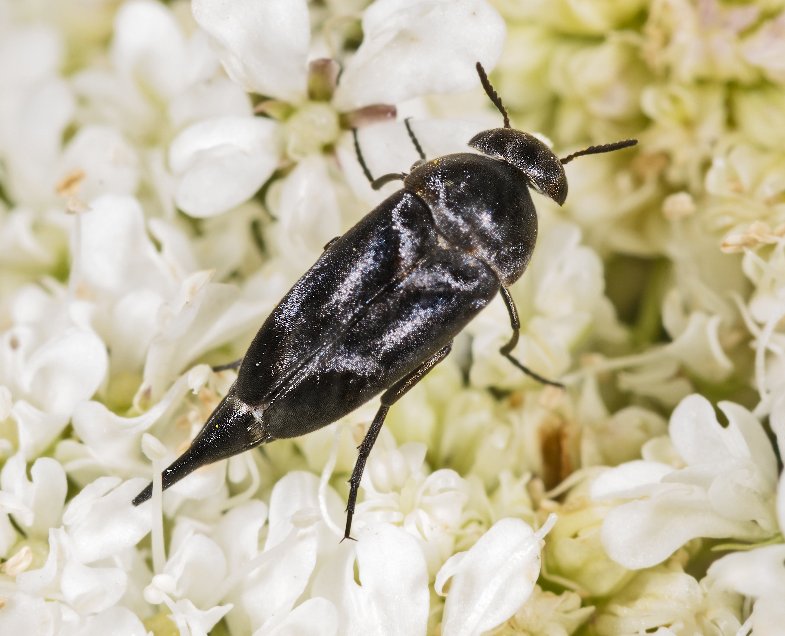 Mordella aculeata. Size : 4 mm